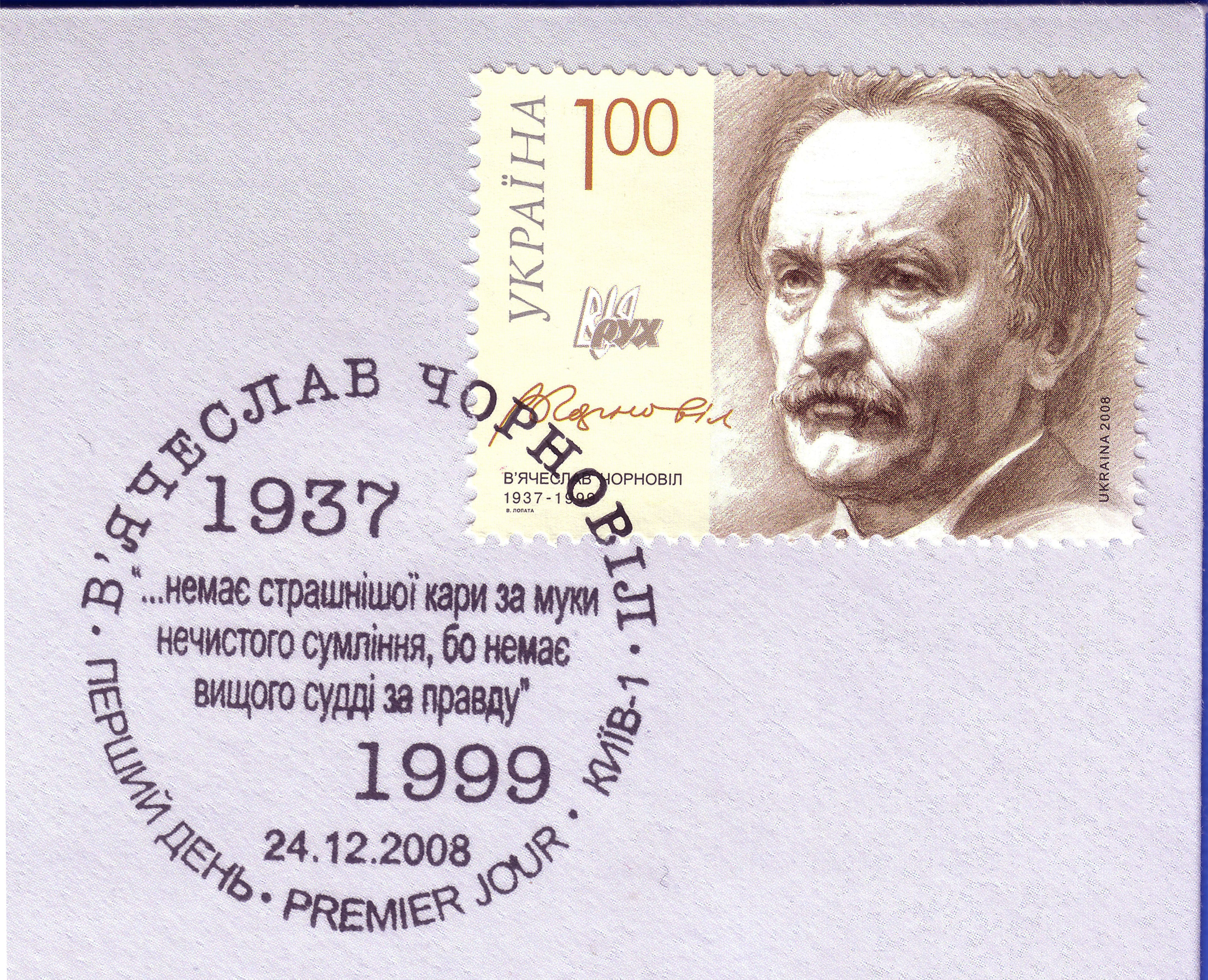 V. Chernovol, on stamp of Ukraine